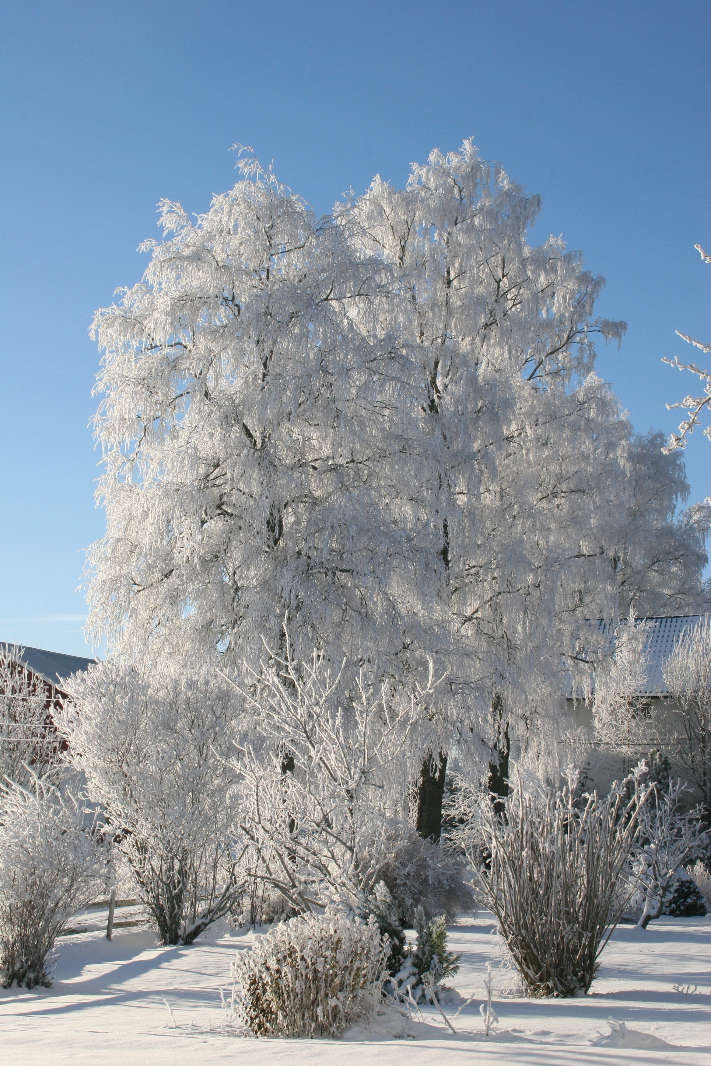 Winter in Norway (Bøn, Eidsvoll, Norway)